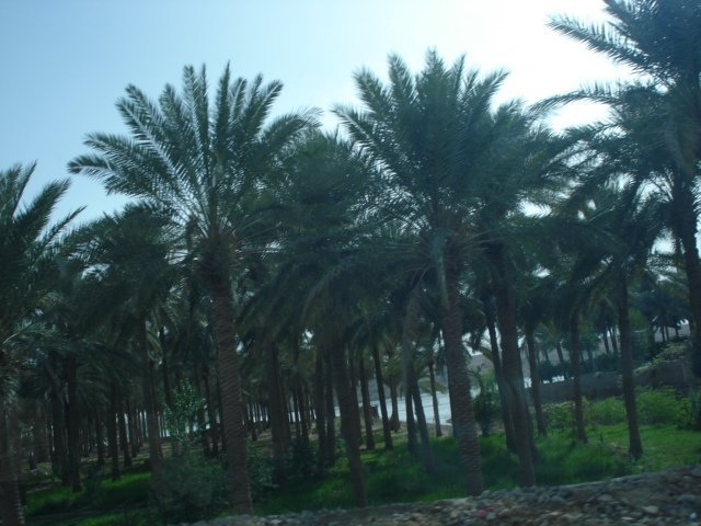 Date grove near Euphrates River in Baghdadi, Iraq